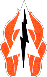 author: Department of Defense creator: US Office of Heraldry license holder: US Army